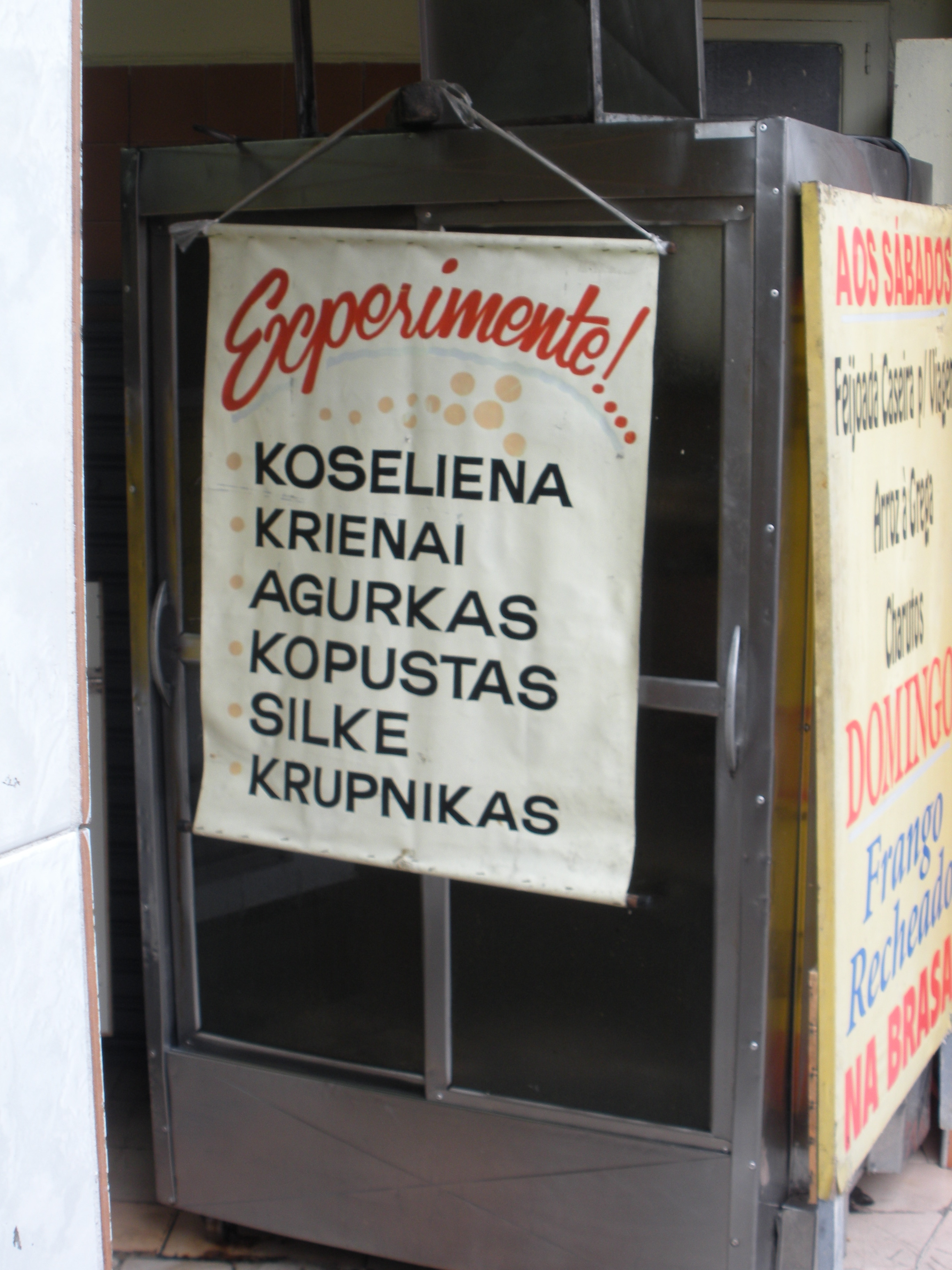 Store with lithuanians products in São Paulo, Brazil. Location: close to the "Praça República da Lituânia" in Vila Zelina.